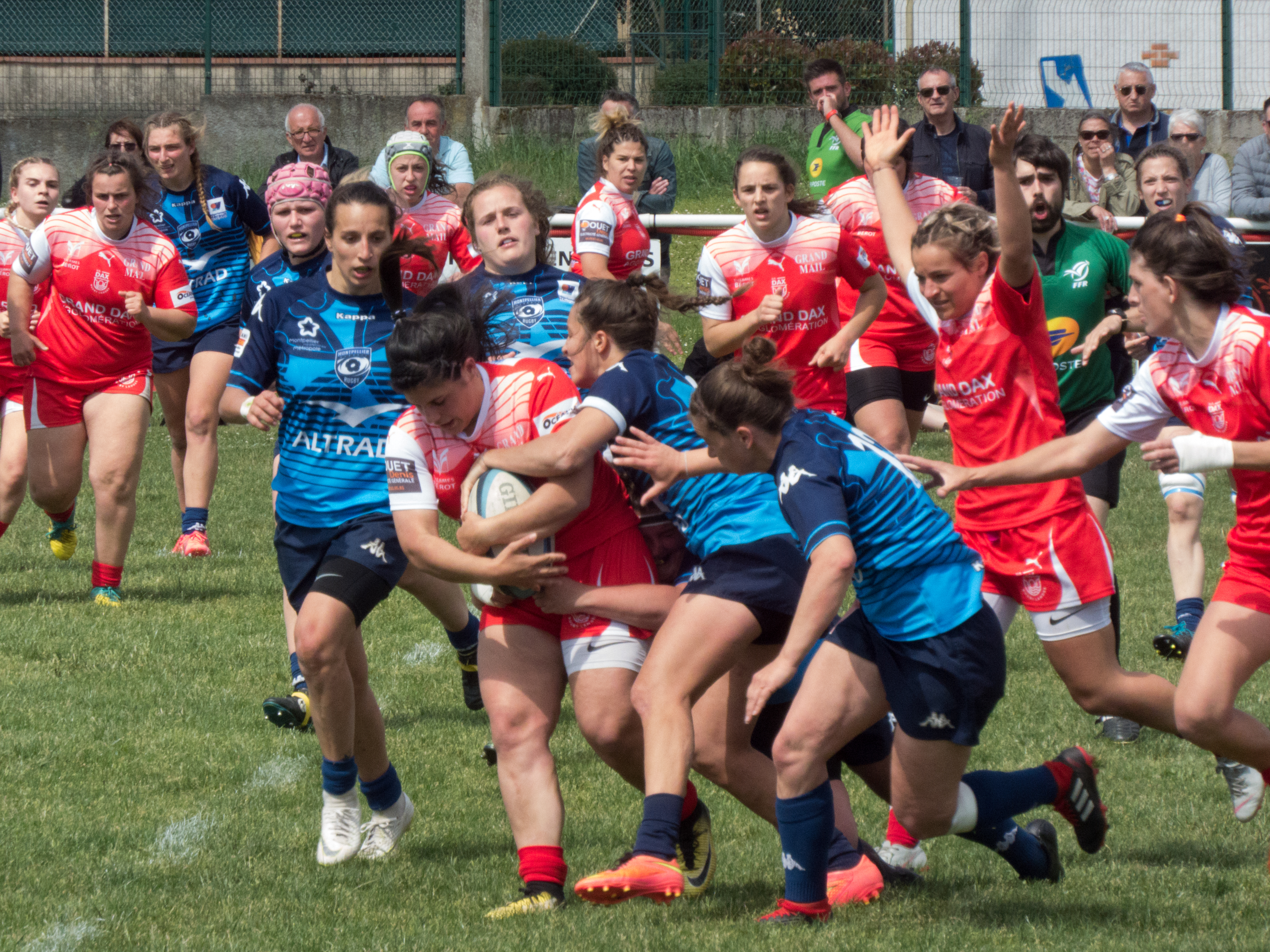 Q60050780 — 12 May 2019, stade Guy-Borrel. Match between: Q3360155 — Q3322886